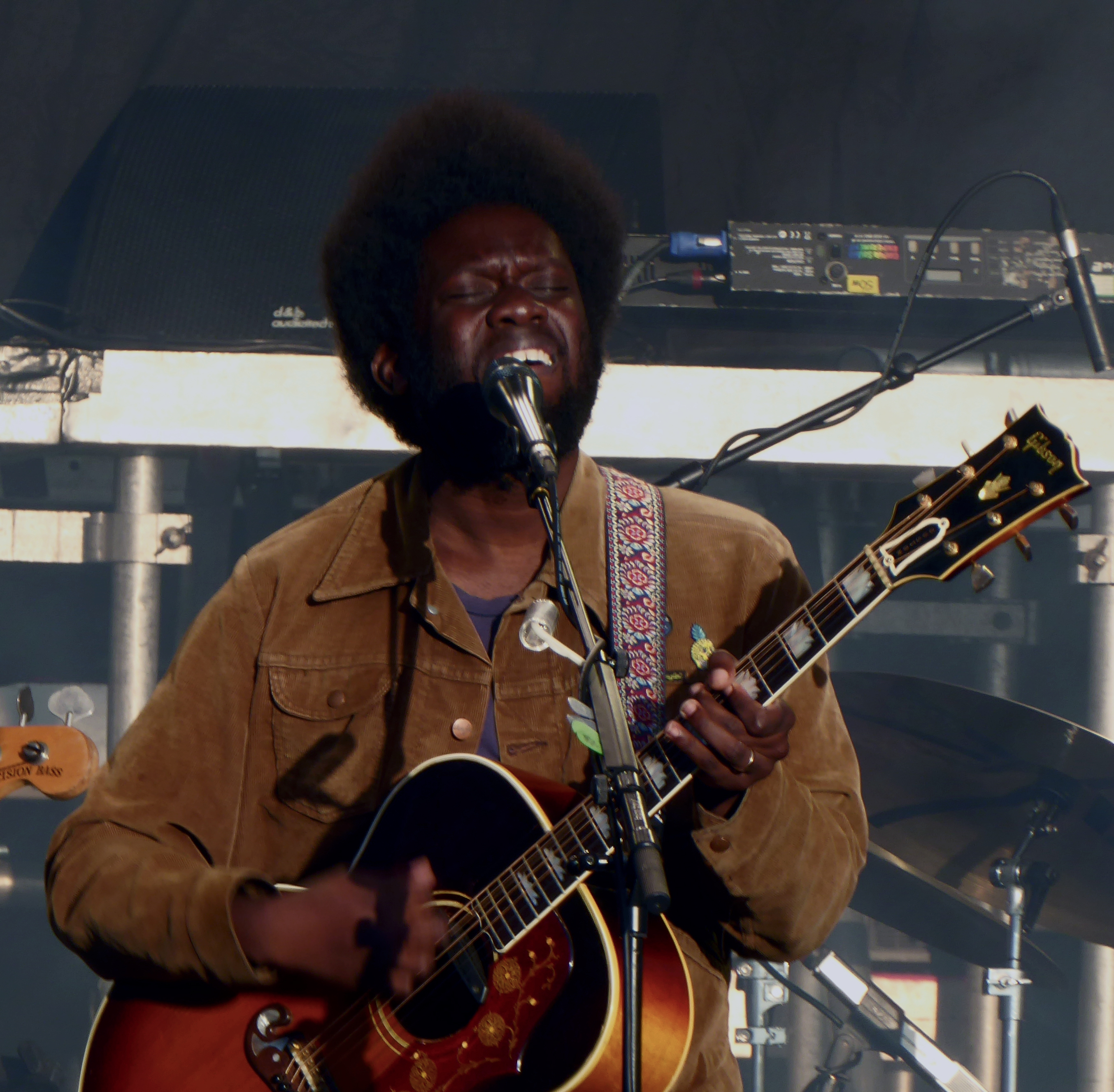 Michael Kiwanuka at Wilderness Festival 2017